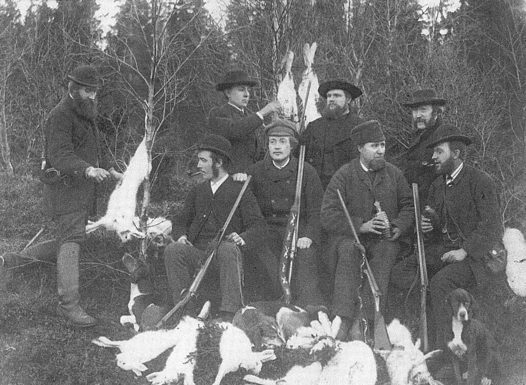 Hare-hunting outside Mosjøen, Norway. Christmas of 1886. The depicted persons are: - Karl Jacobsen (b. 1852), tradesman - Andreas Markussen (b. 1845 in Bergen), hatter - Jakob Ingebriktsen, joiner - Jørgen Jacobsen (b. 1856; brother of Karl) - Mr Coldevin, photographer - Herman Larsen (b. 1837), joiner - Mr Dahl, pharmacist - Anthon Schei, baker